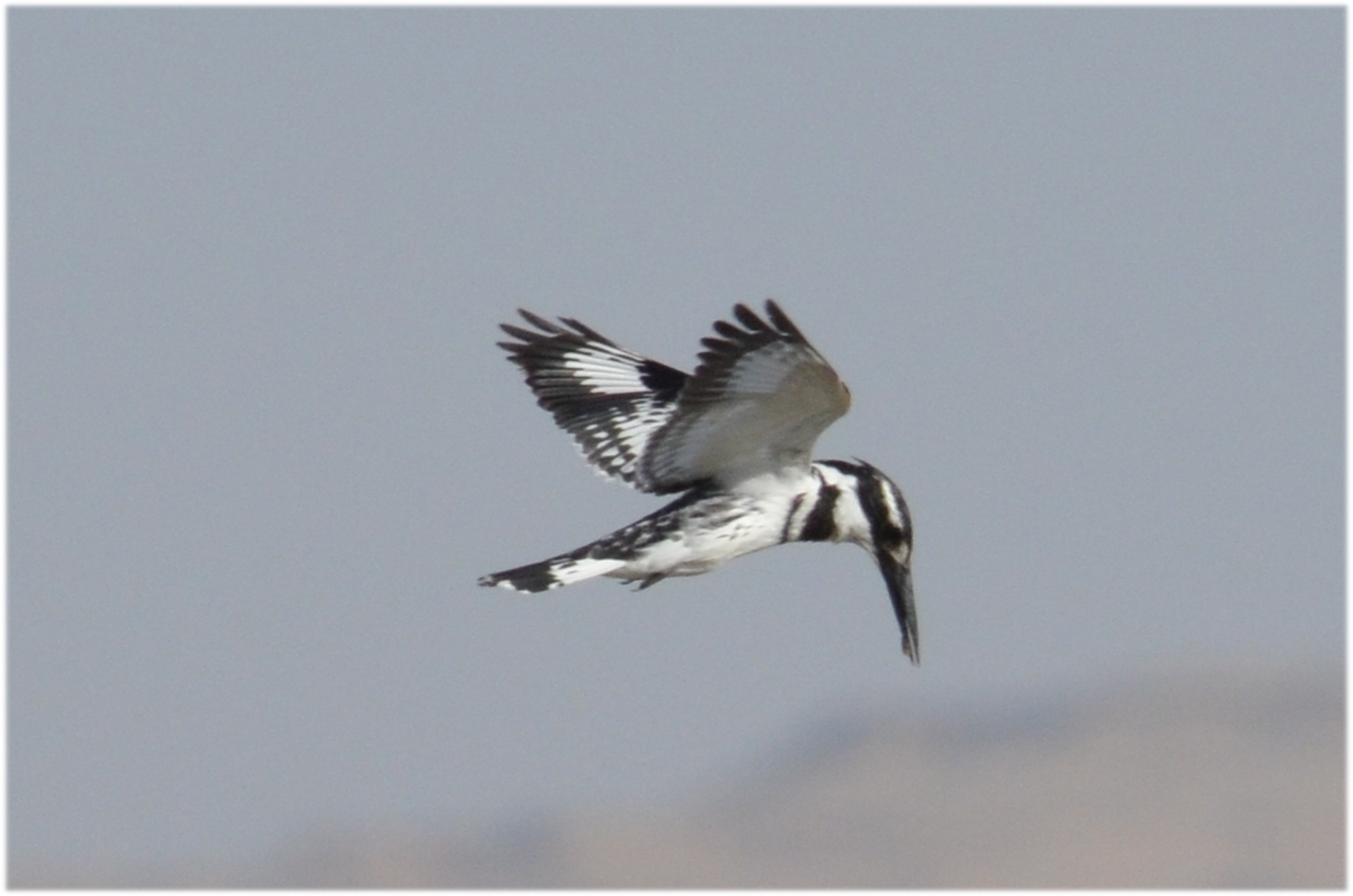 pied kingfisher at Fayoum